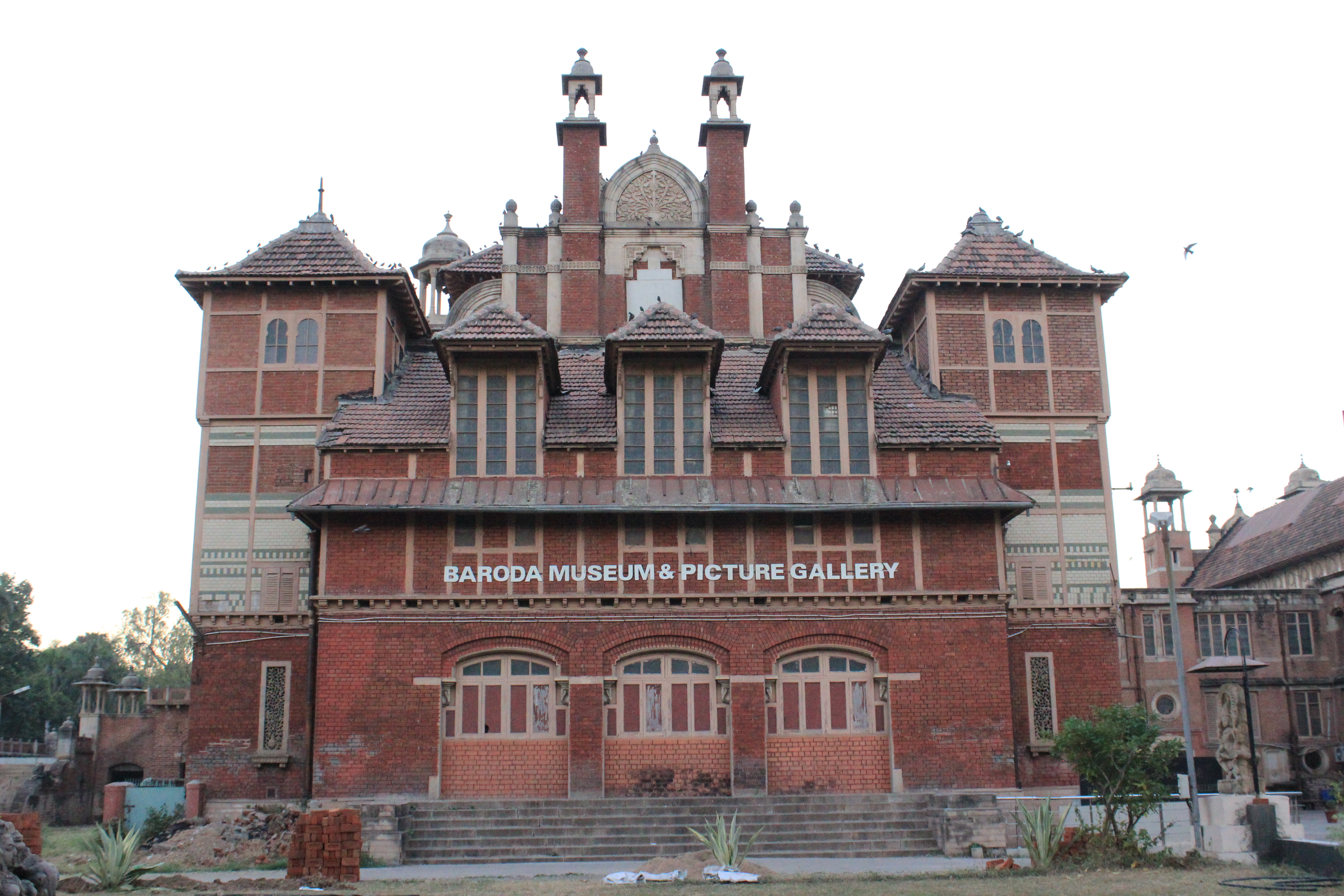 Baroda Museum & Picture Gallary ગુજરાતી: વડોદરા મ્યુઝીયમ એન્ડ પિક્ચર ગેલેરી